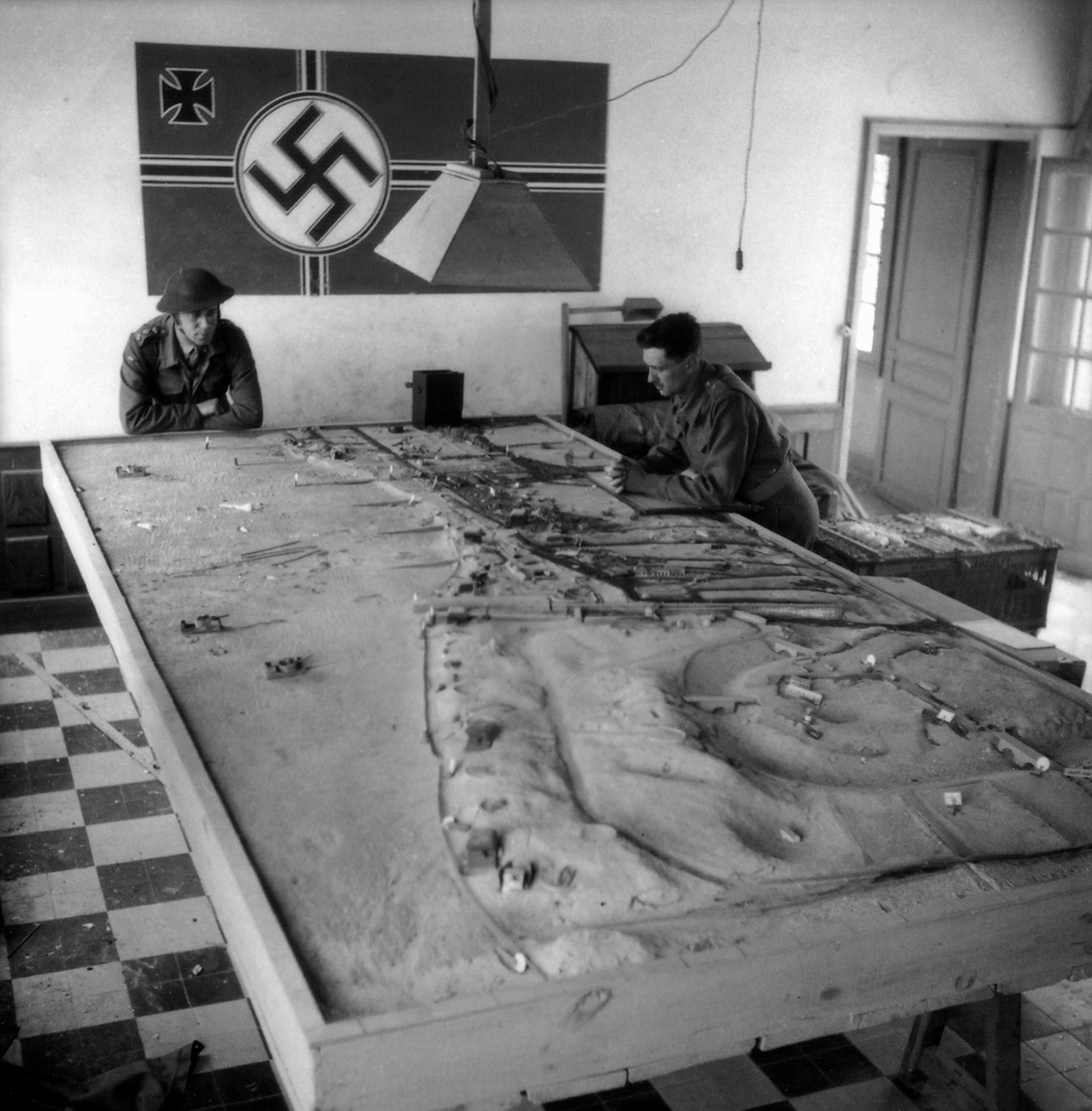 Two canadian soldiers overlooking a german model of the Juno-Beach defences at Courseulles sur Mer, 6 June 1944. Post-Work: User:W.wolny